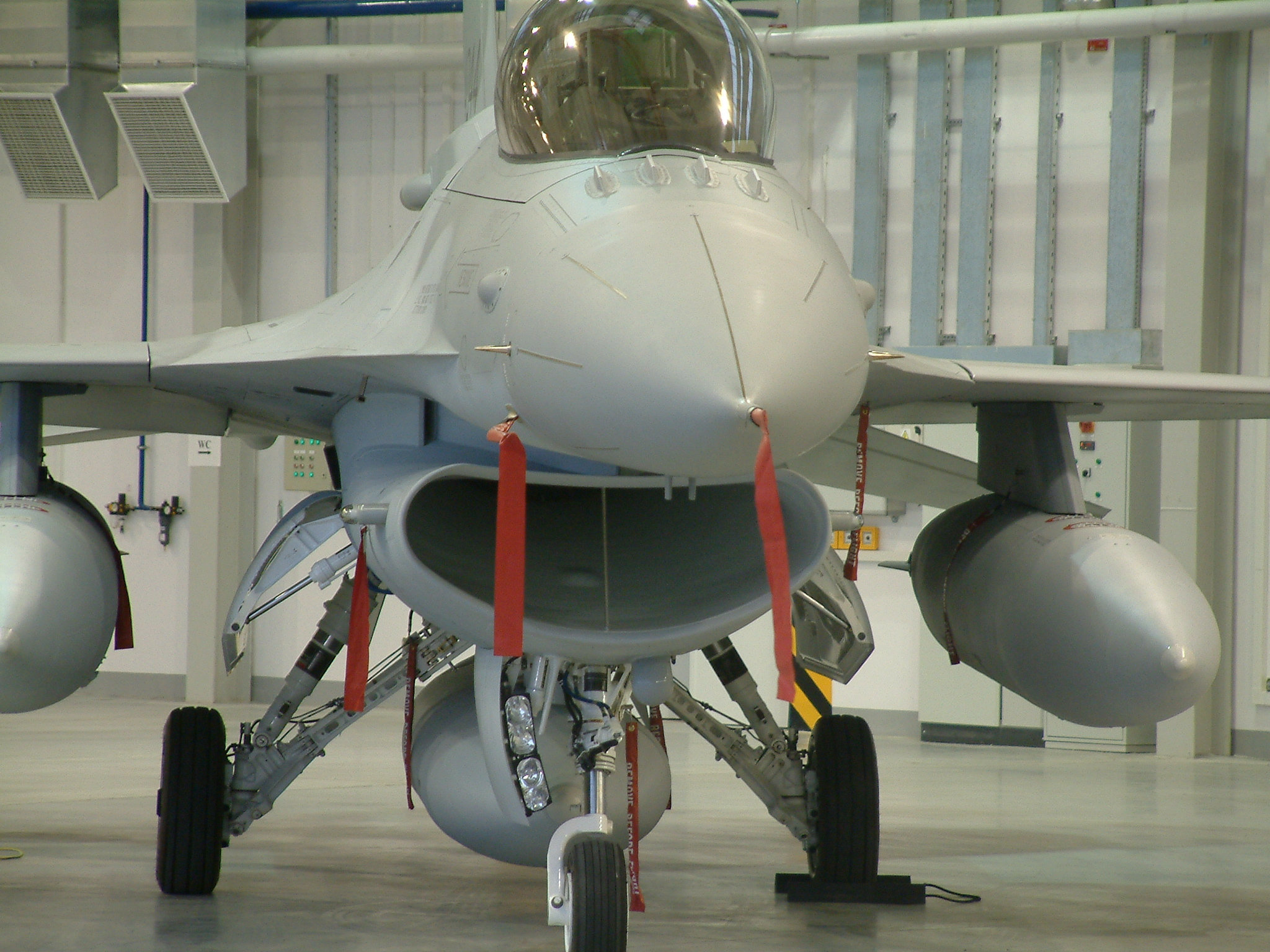 F-16C block 52+ #4044 of Polish Air Force, 31st Air Base Poznań-Krzesiny